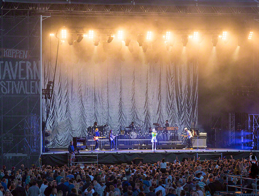 Veronica Maggio with the backing band at the main stage during Stavernfestivalen in Stavern on 08. July 2016.